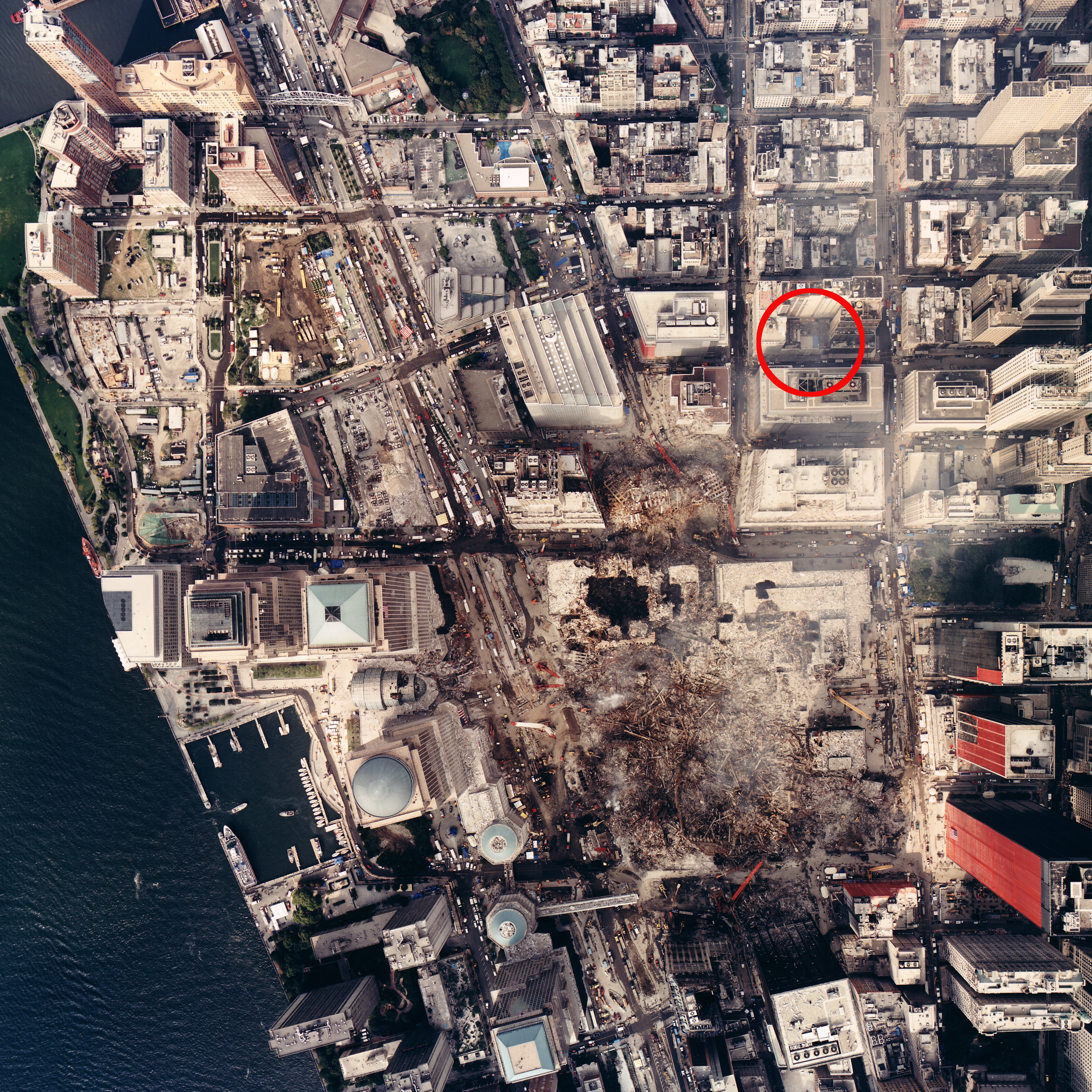 Image taken by NOAA's Cessna Citation Jet on Sept. 23, 2001 from an altitude of 3,300 feet using a Leica/LH systems RC30 camera. Original description by LOC: ---- World Trade Center, September 23, 2001. :United States. National Oceanic and Atmospheric Administration. ;CREATED/PUBLISHED :[Washington, D.C.] : National Oceanic and Atmospheric Administration, [2001] ;NOTES :On accompaning NOAA exhibit identification sign: Aerial photograph of the World Trade Center, taken by National Oceanic and Atmospheric Administration on September 23, 2001, from an altitude of 3,300 feet, showing the devastation and the ongoing recovery effort. :Vertical col. glossy photograph from aircraft graduating to oblique in all directions. :Also covers surrounding undamaged districts. :Title from accompanying exhibit identification sign. :Oriented with north toward the upper right. :Printed on: Kodak Professional paper. :Includes alphanumeric technical photographic data in lower margin. :In right margin in red box: WILD 16/4 UAGA-f, Nr 13164 153,28. :Scale [ca. 1:1,500 at center]. ;SUBJECTS :World Trade Center (New York, N.Y.)--Remote-sensing images. :World Trade Center (New York, N.Y.)--Aerial views. :September 11 Terrorist Attacks, 2001--Maps. :Wall Street (New York, N.Y.)--Remote-sensing images. :Wall Street (New York, N.Y.)--Aerial views. :United States--New York (State)--Wall Street (New York) ;MEDIUM :1 remote-sensing image : col., photocopy ; 92 x 93 cm. + 1 exhibit identification sign ([1] sheet : 9 x 39 cm.) ;CALL NUMBER :G3804.N4:2W7A43 2001 .U5 Vault Oversize ;REPOSITORY :Library of Congress Geography and Map Division Washington, D.C. 20540-4650 USA ;DIGITAL ID :g3804n ct002130